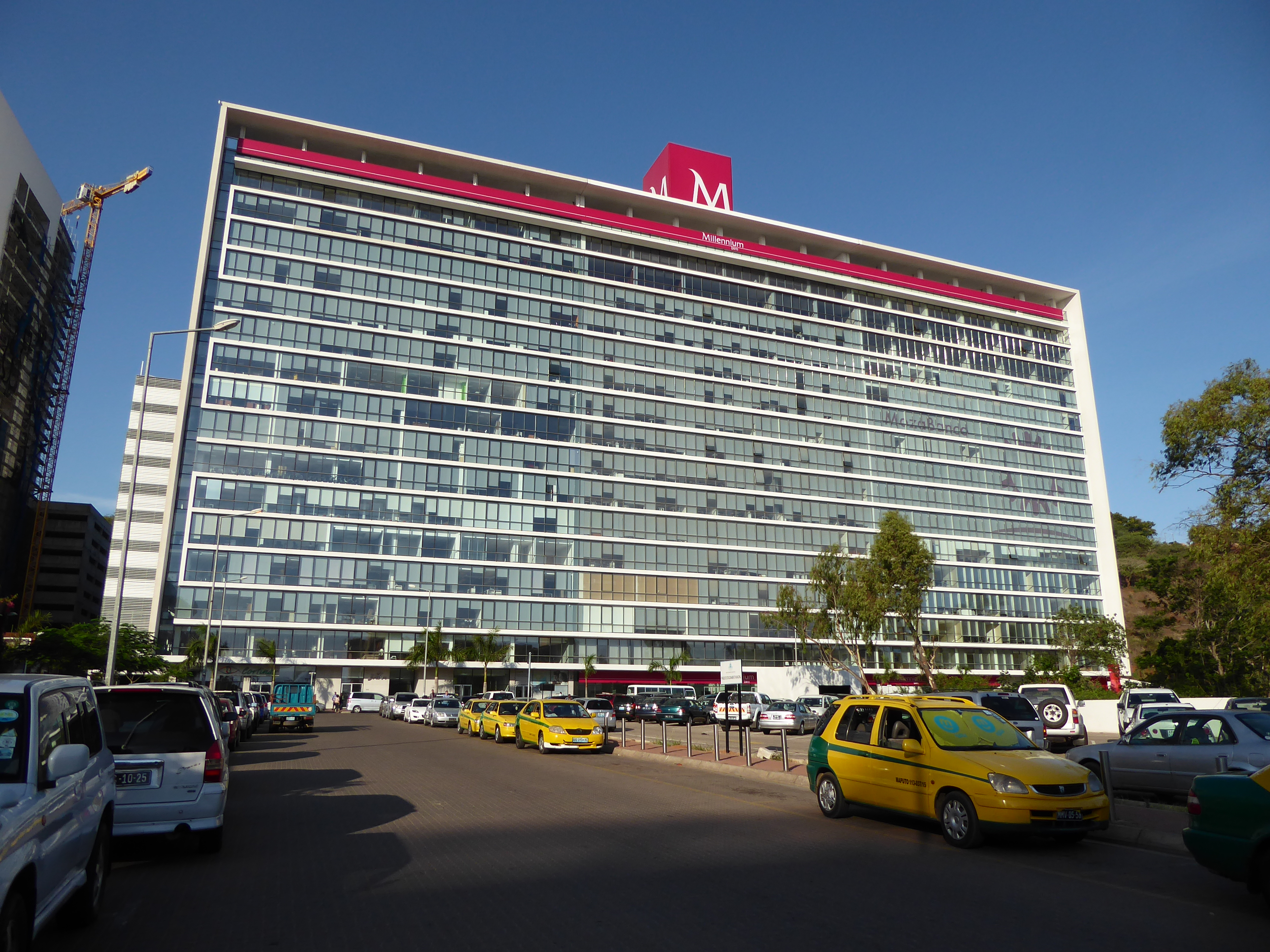 Headquarter of the Mozambican bank "Millennium bim" in Maputo